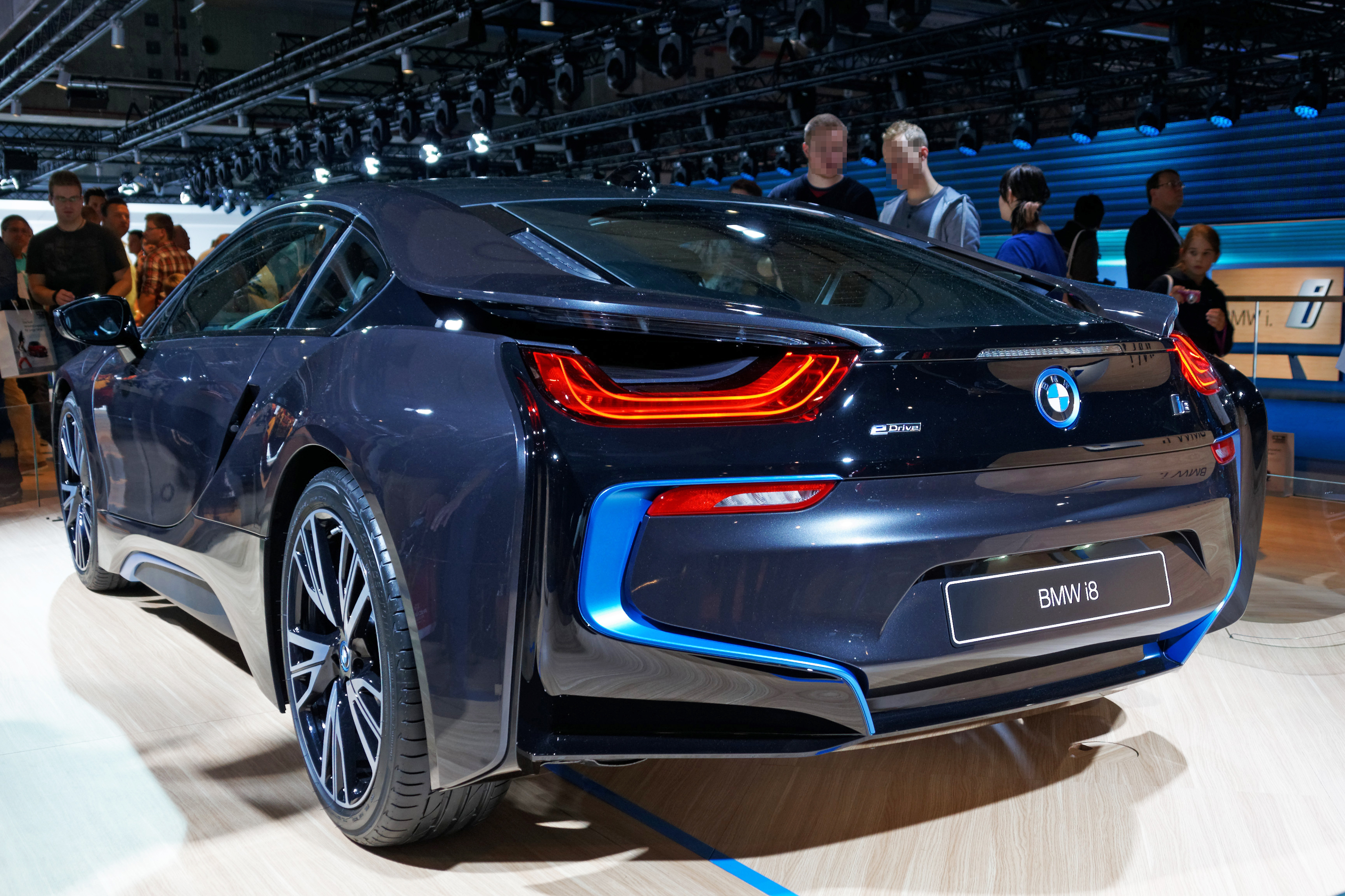 BMW i8 plug-inelectric car (production version) at the 2013 Frankfurt Motor Show.